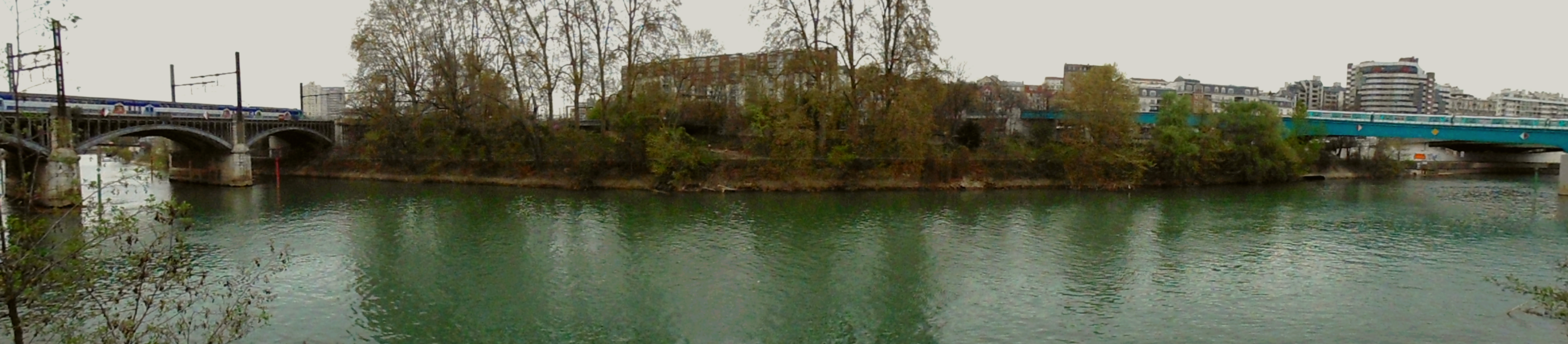 Bridges of RER D and Metro line 8 crossing the Marne at Maisons-Alfort